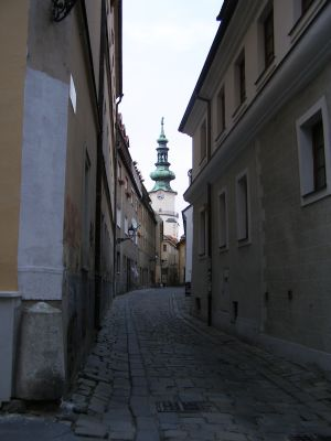 The Old Town in Bratislava (Slovakia)